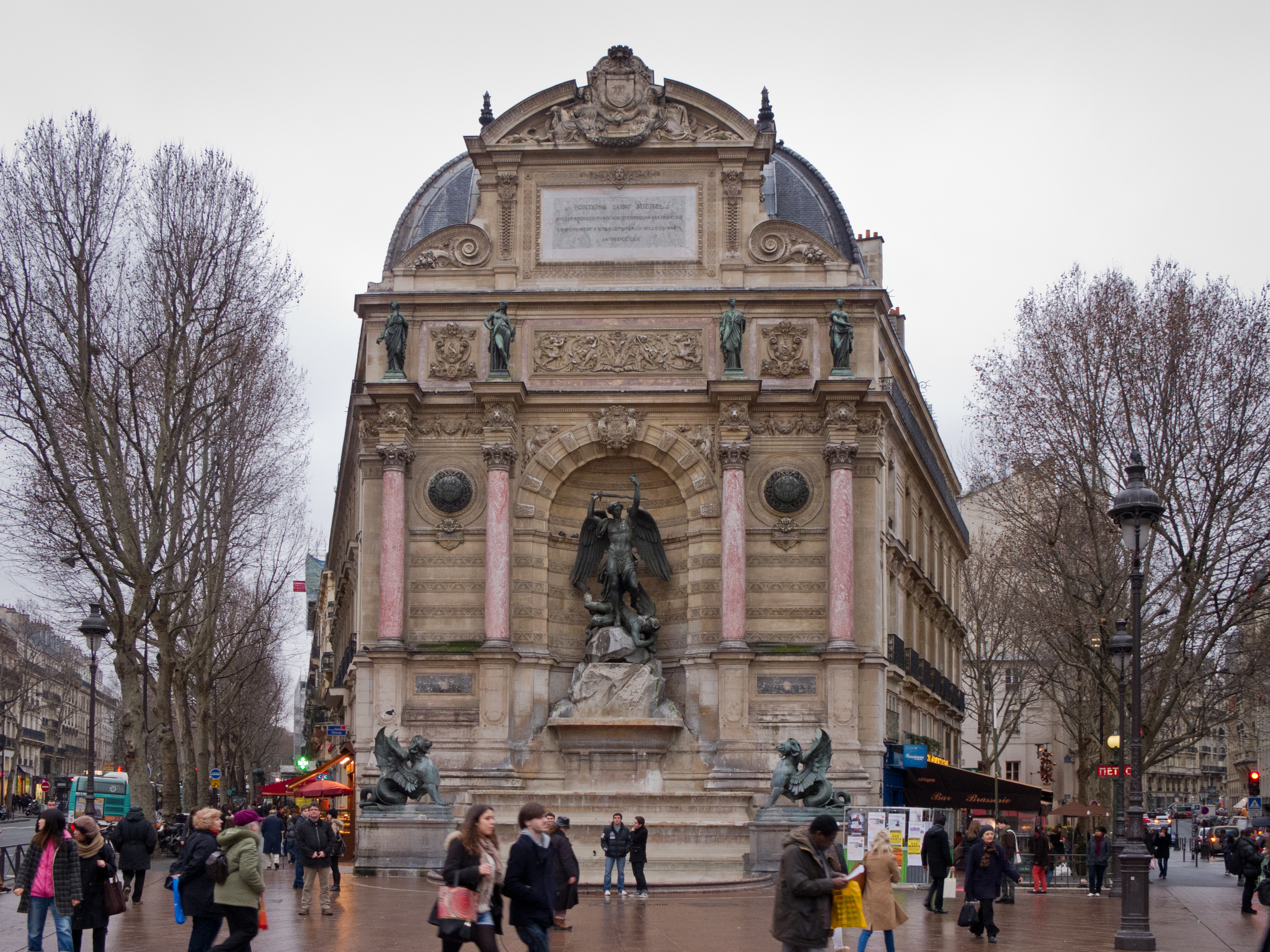 Fontaine Saint-Michel de Paris, France.